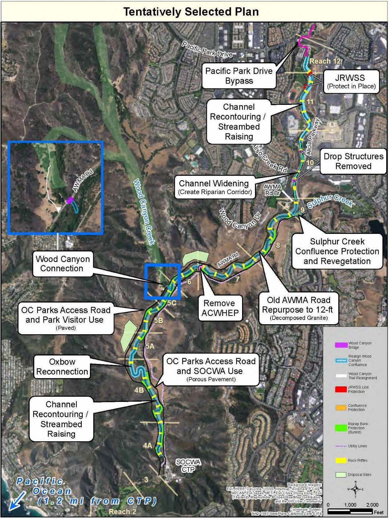 From the Aliso Creek Mainstem Ecosystem Restoration Study, 2017